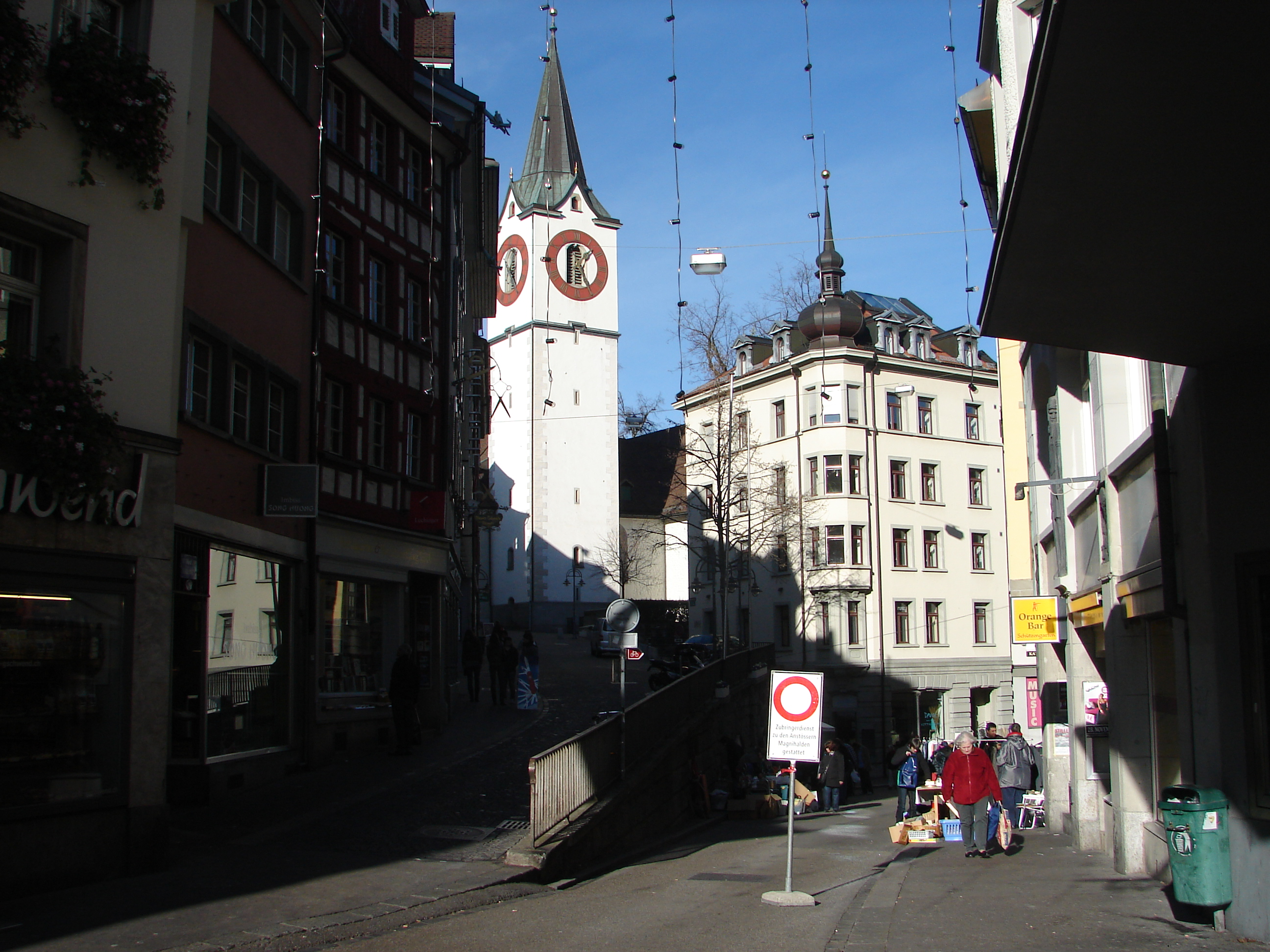 Goliathgasse